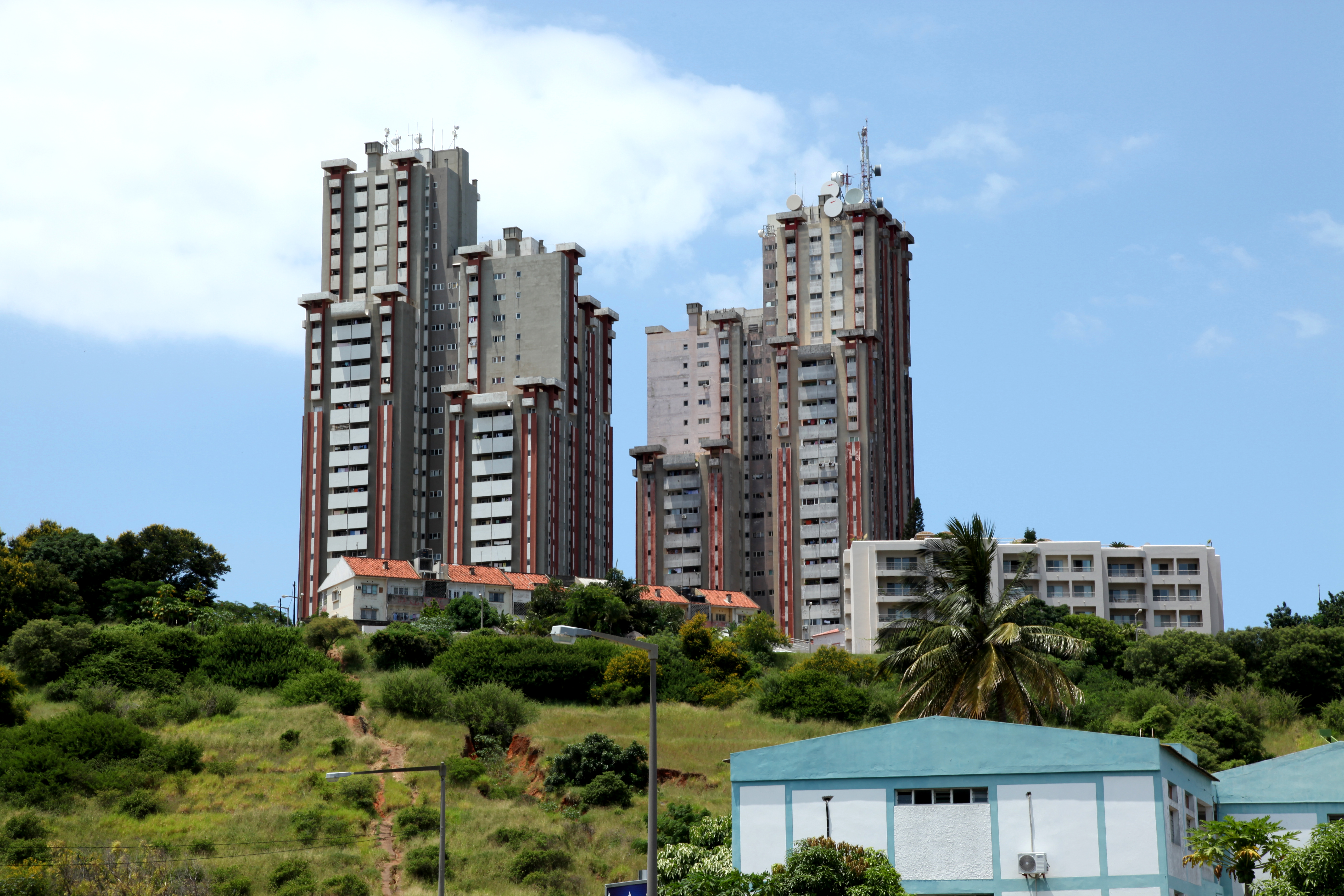 The "Red Towers" in Maputo, Mozambique